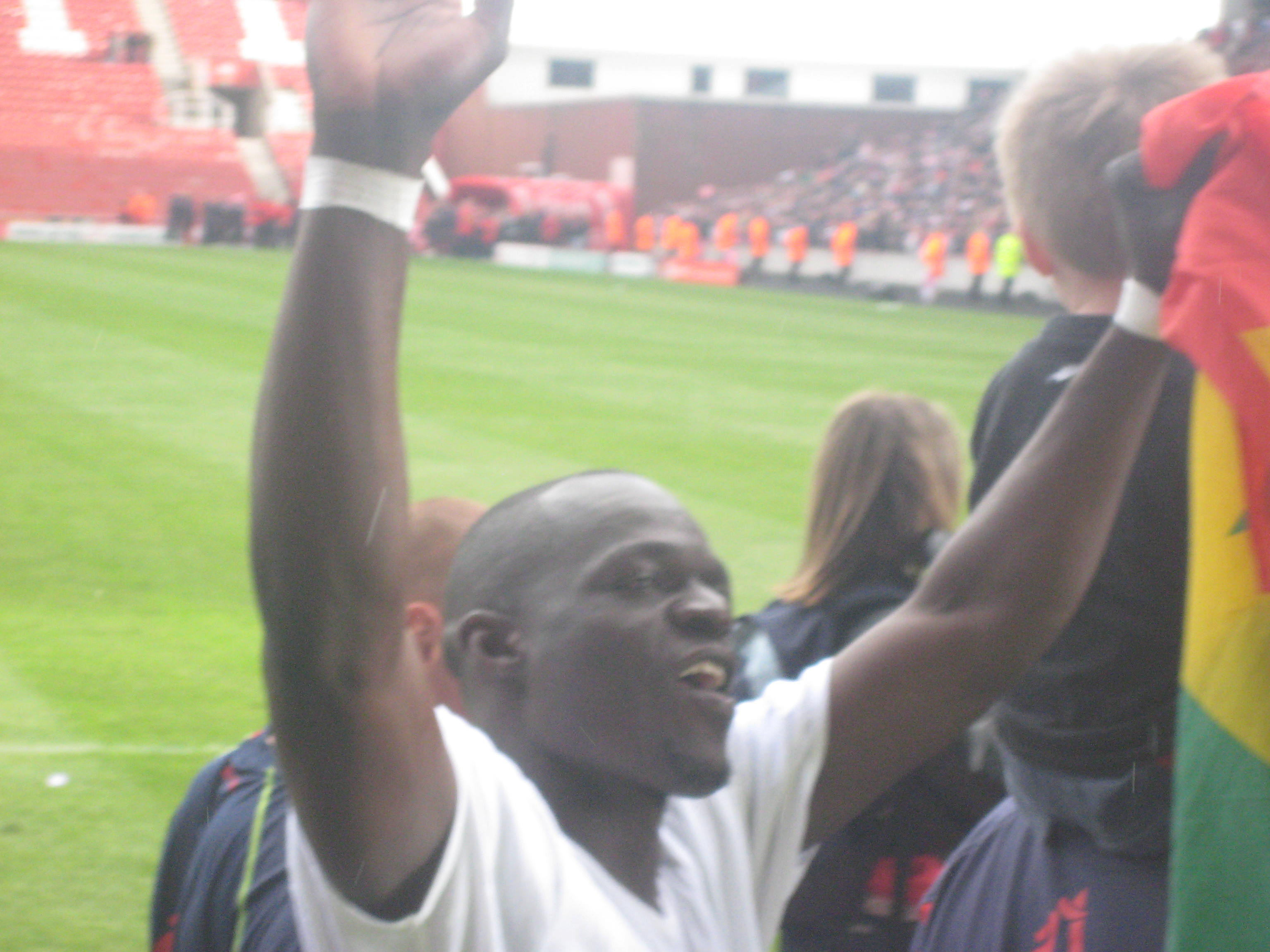 Abdoulaye Faye during the lap of honour at The Britannia Stadium after the final home game against Wigan.